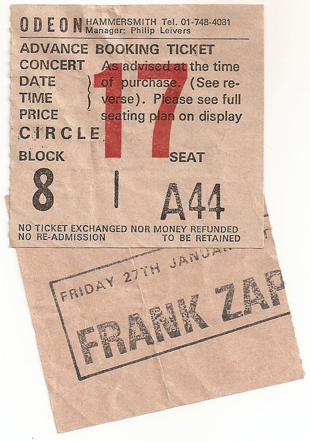 Ticket stub from a Frank Zappa concert on 27 January 1978 at the Hammersmith Odeon, London, UK.